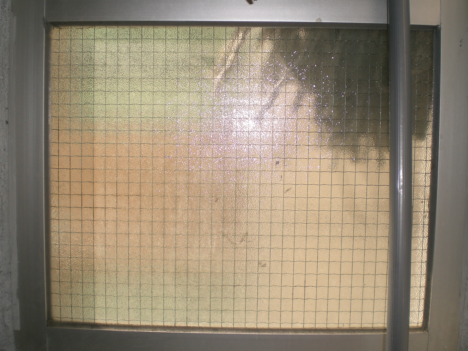 鋁窗和zh:玻璃窗